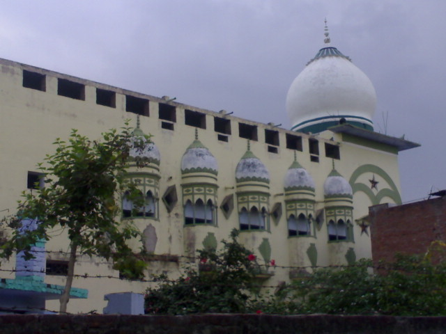 Ziarat Shareef, a mosque in Kakrala, District Budaun, UP, India